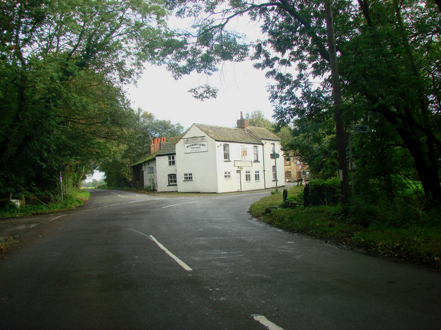 The Mexboro Public House Crossroads. This view of the Mexboro pub is taken from Newmarket Lane. The lane running off to the immediate left of the photographer is Hungate Lane, the road running down the left hand side of the pub is Park lane and the lane turning right at the pub is Watergate.